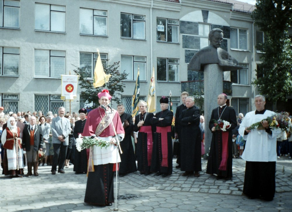 Inauguation of Eugenijus Bartulis, Lithuania